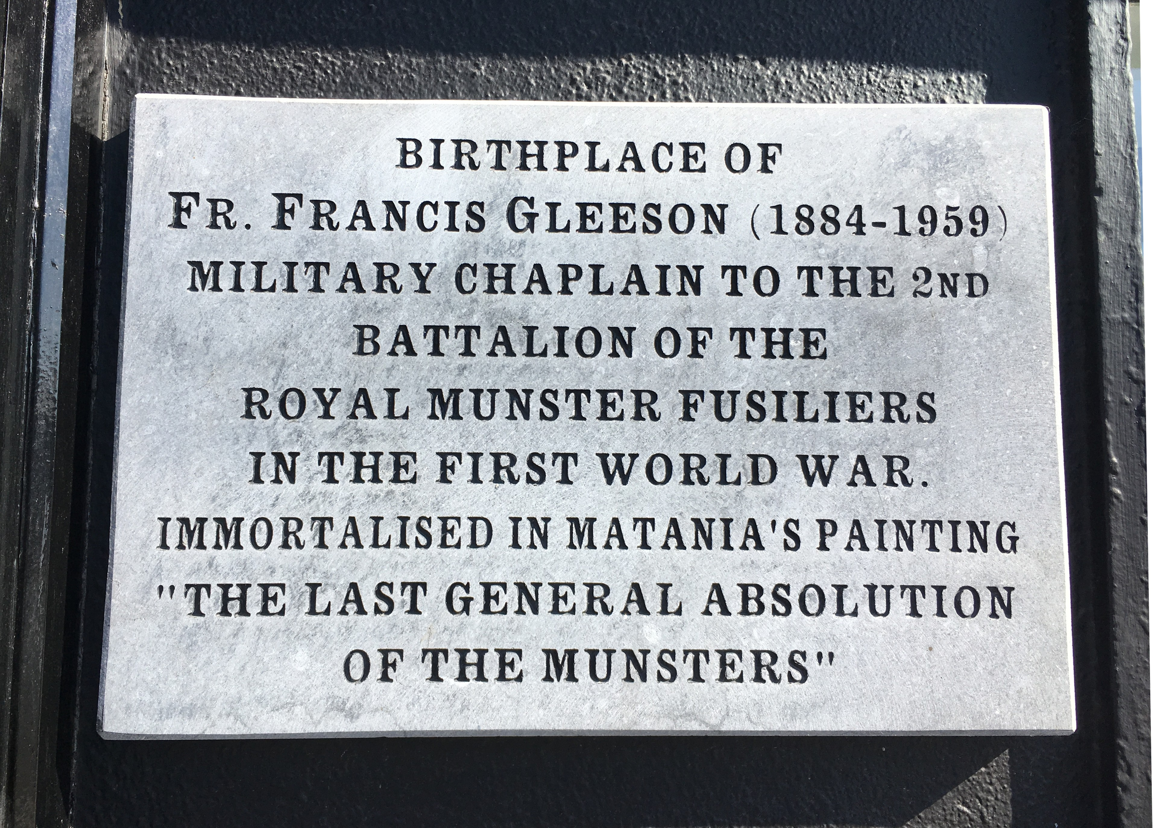 Birthplace plaque of Father Francis Gleeson on Main Street, Templemore, Co. Tipperary, Ireland, who was a military chaplain with the Royal Munster Fusiliers during World War I 1914-18 .